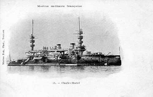 French battleship Charles Martel (1893-1922)